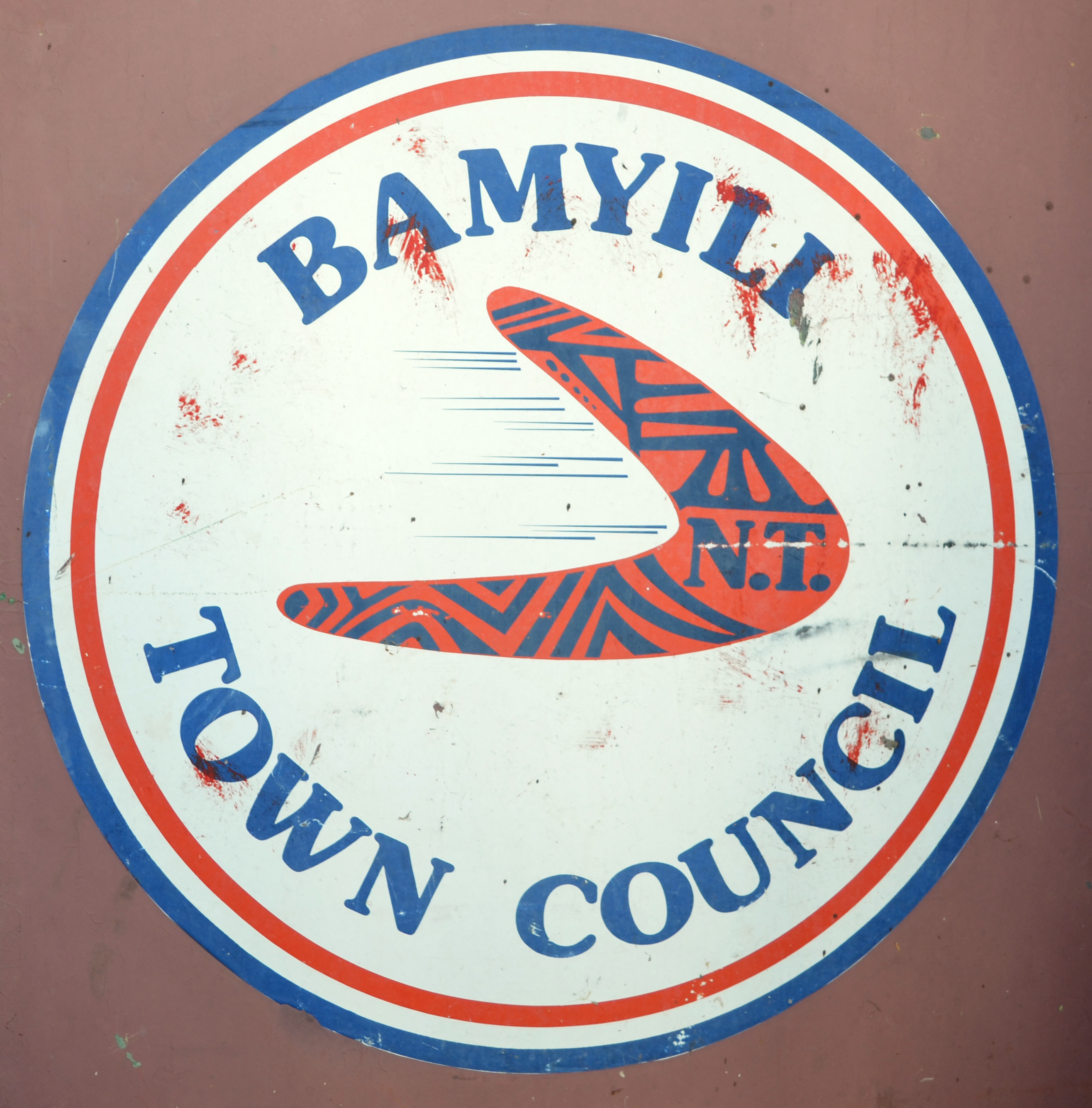 Synthetic sticker affixed near the interior - rear - stairwell of the University of Southern Queensland's 1952 Leyland OPD2 double-decker bus. Photographed September 2012 before the bus was retrieved from Dalby, Queensland for restoration.